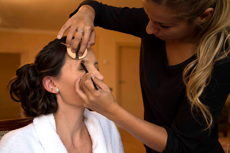 Maquilladora de bodas aplicando el maquillaje sobre la novia